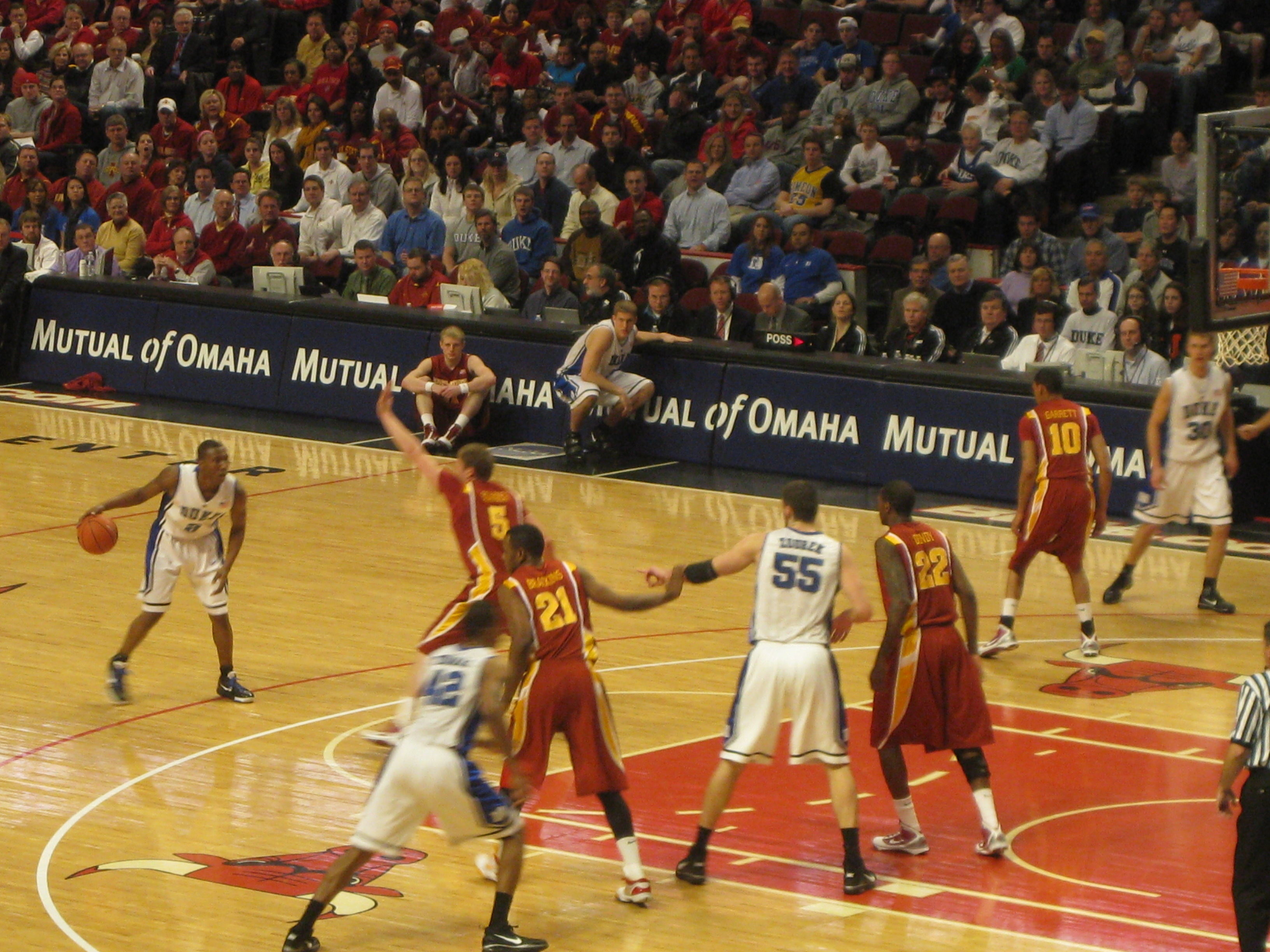 Duke Blue Devils vs. Iowa State Cyclones basketball at the United Center in Chicago - 1/6/2010